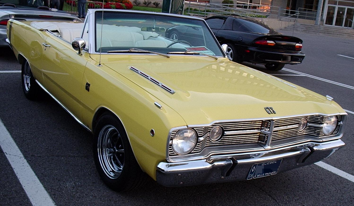 1968 Dodge Dart GTS convertible photographed in Laval, Quebec, Canada at Les chauds vendredis.